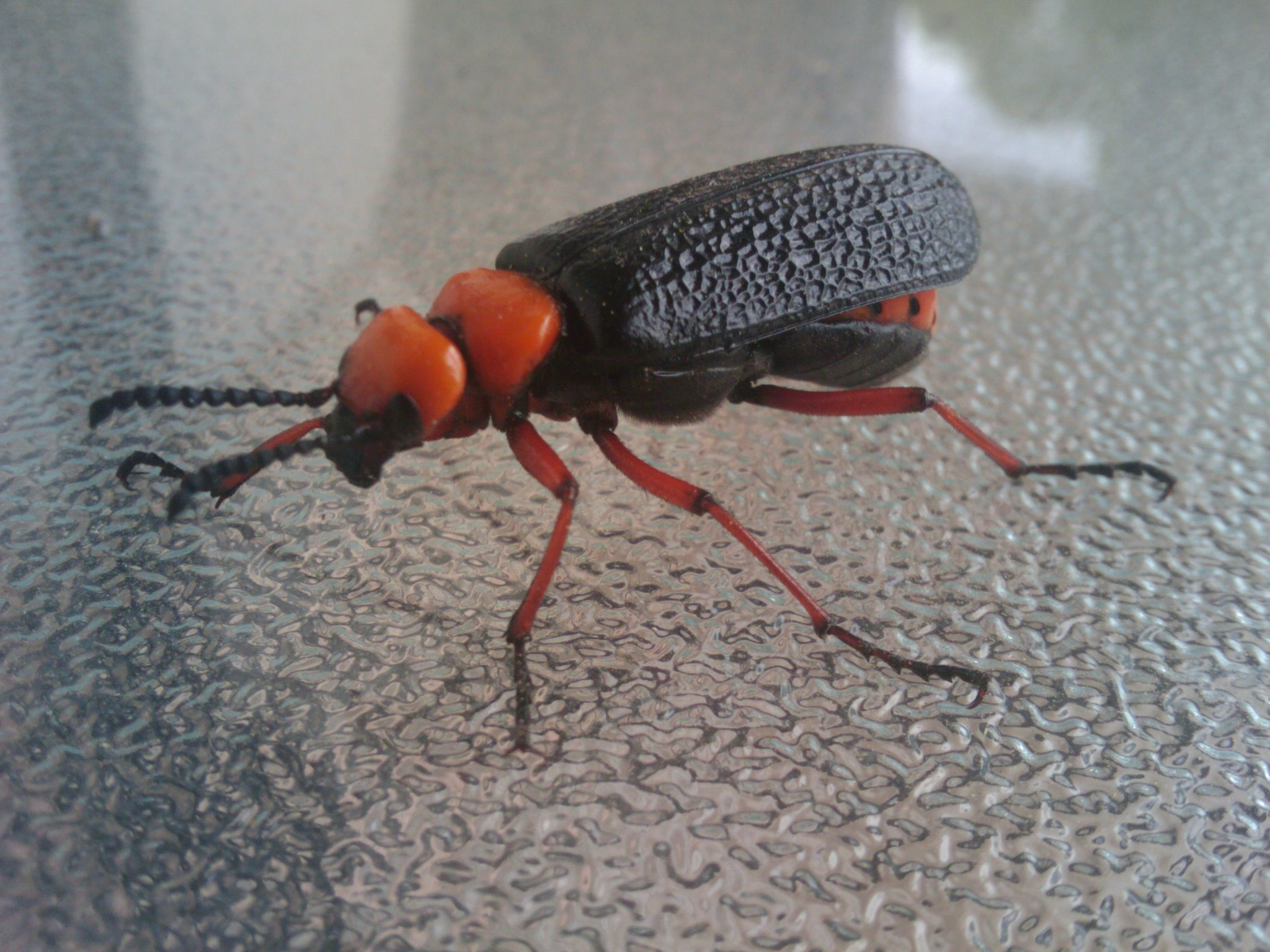 nemognatha sparsa (Blister Beetle) Common in California Produce a chemical called Cantharidin which can cause blisters and burns (used to burn off warts in some cultures!). Another interesting fact about these guys is that Spanish Fly (Used to be ground up and used to make people horny (Aphrodisiac) is from Blister Beetles. No worries with this bug but best not to handle them.